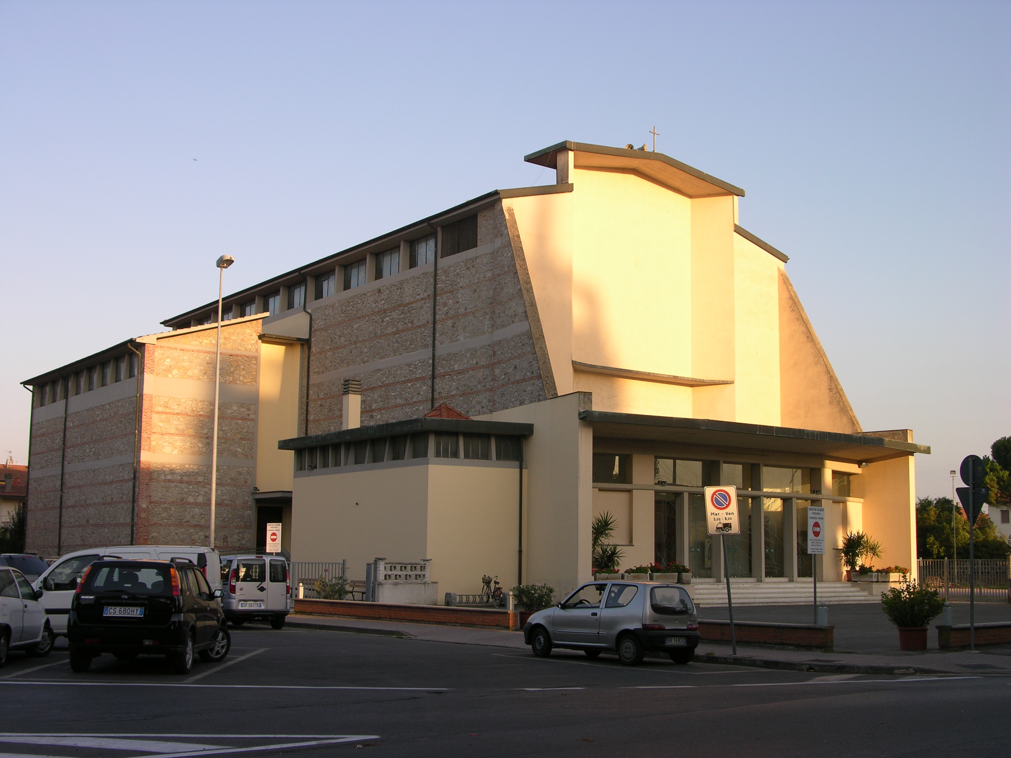 Church of St. Joseph - Pontedera